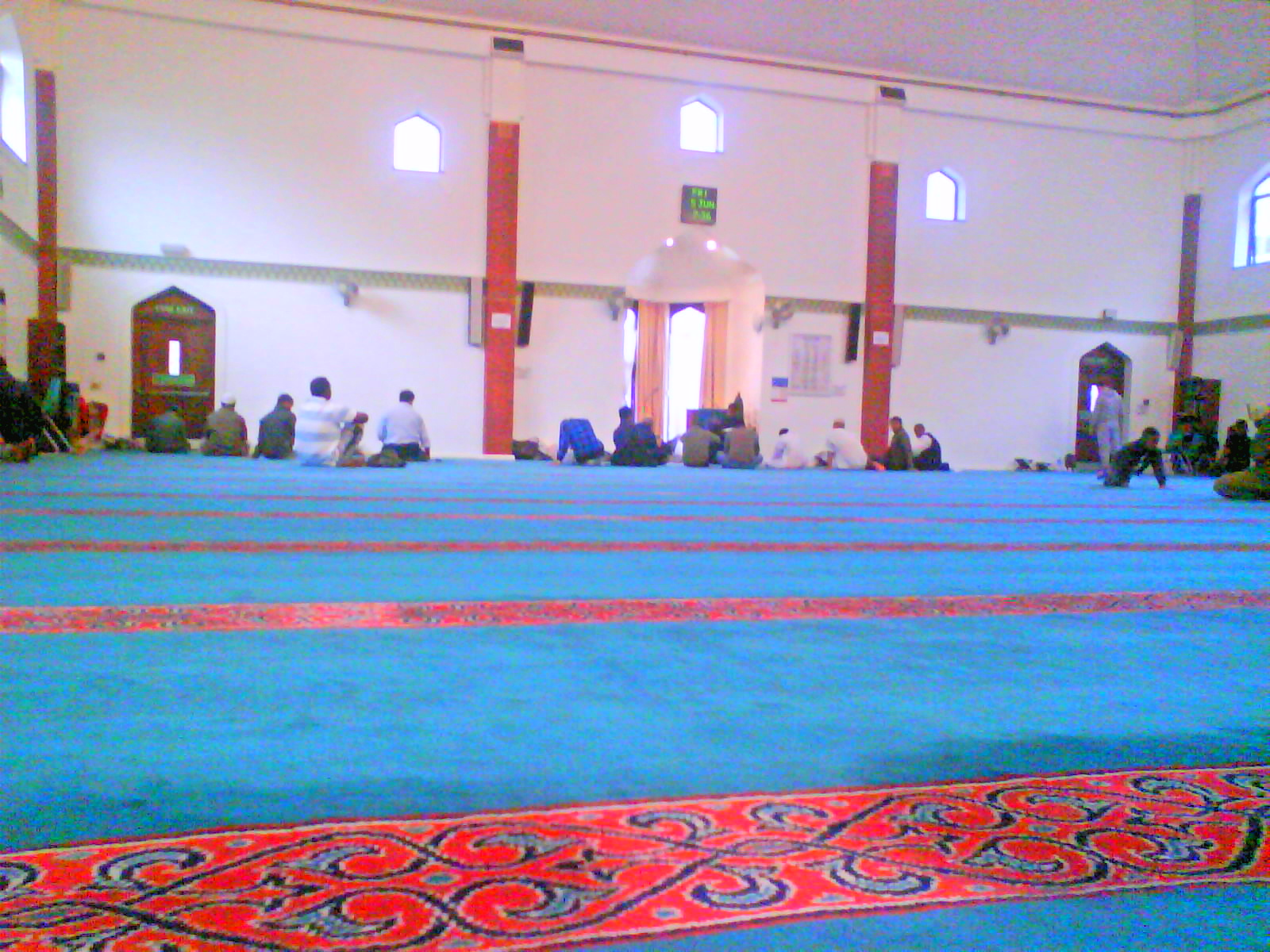 Inside of the East London Mosque, taken with a camera phone (see below for details)